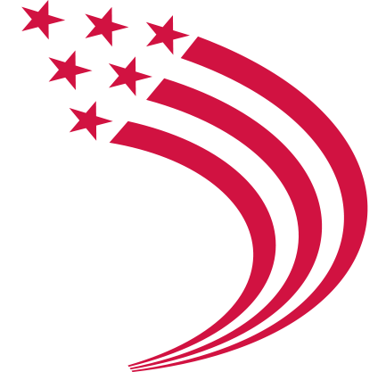 This is the logo of Young Marines, Inc.